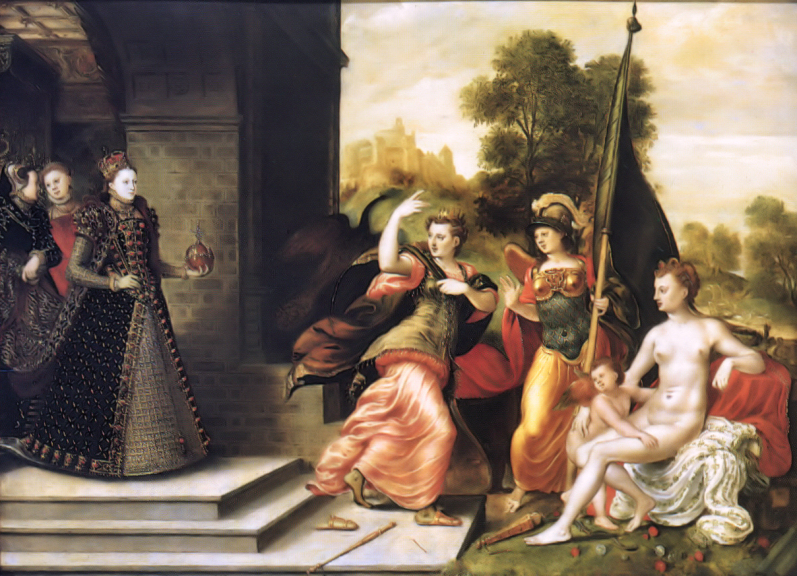 Allegoric representation of Elizabeth I with the goddesses Juno, Athena & Venus/Aphrodite. The fact that Juno seems to signal the Queen to walk towards the goddess suggests that the painting was commissioned to pressure Elizabeth into marriage.